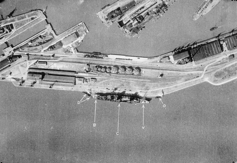 Ss Bremen This image was taken by a reconnaissance aircraft of Bomber Command and show the Atlantic Liner SS BREMEN after her disastrous fire at her dock in Bremerhaven. The image shows smoke pouring from BREMEN'S bow and stern, while amidships she appears to be burnt out. Three small craft are also visible in the image and are being used in a vain attempt to put out the fire.